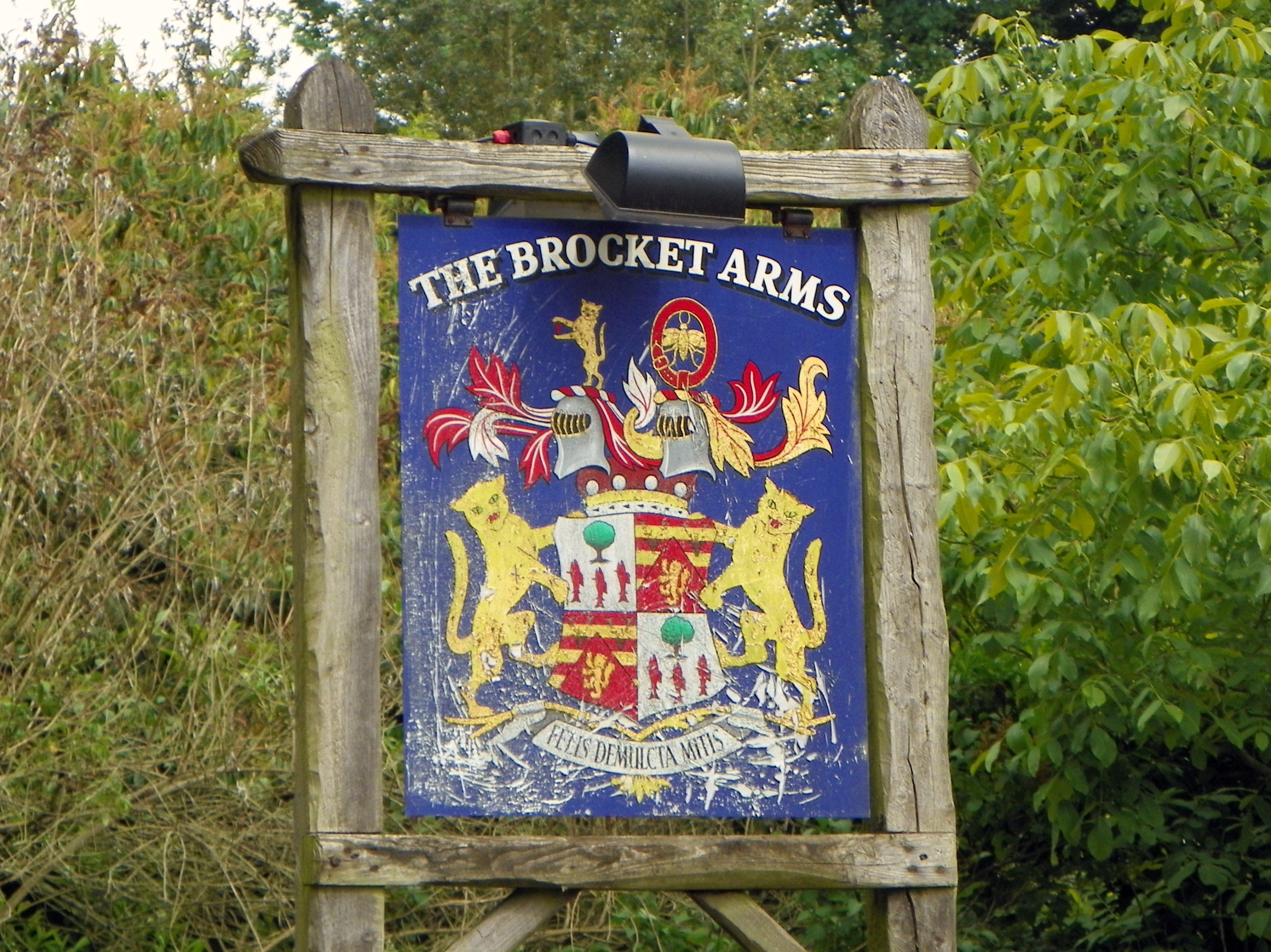 Pub sign of The Brocket Arms Public House, Ayot St Lawrence.